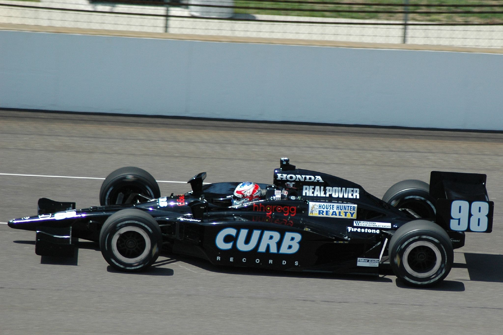 Roger Yasukawa at Indianapolis 500 practice.